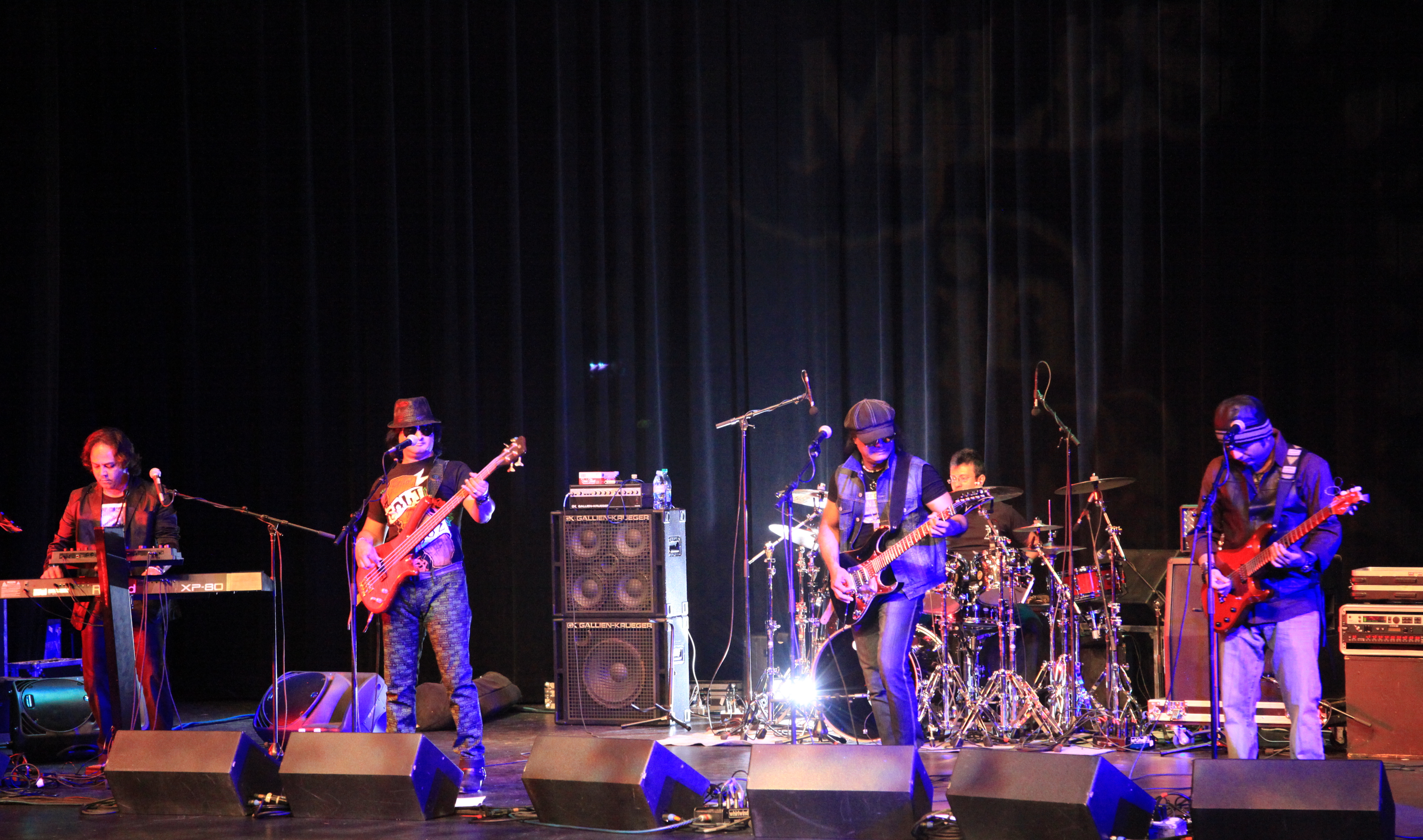 Miles performing in Seattle in 2012